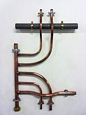 Copper work of an apprentice plumber.